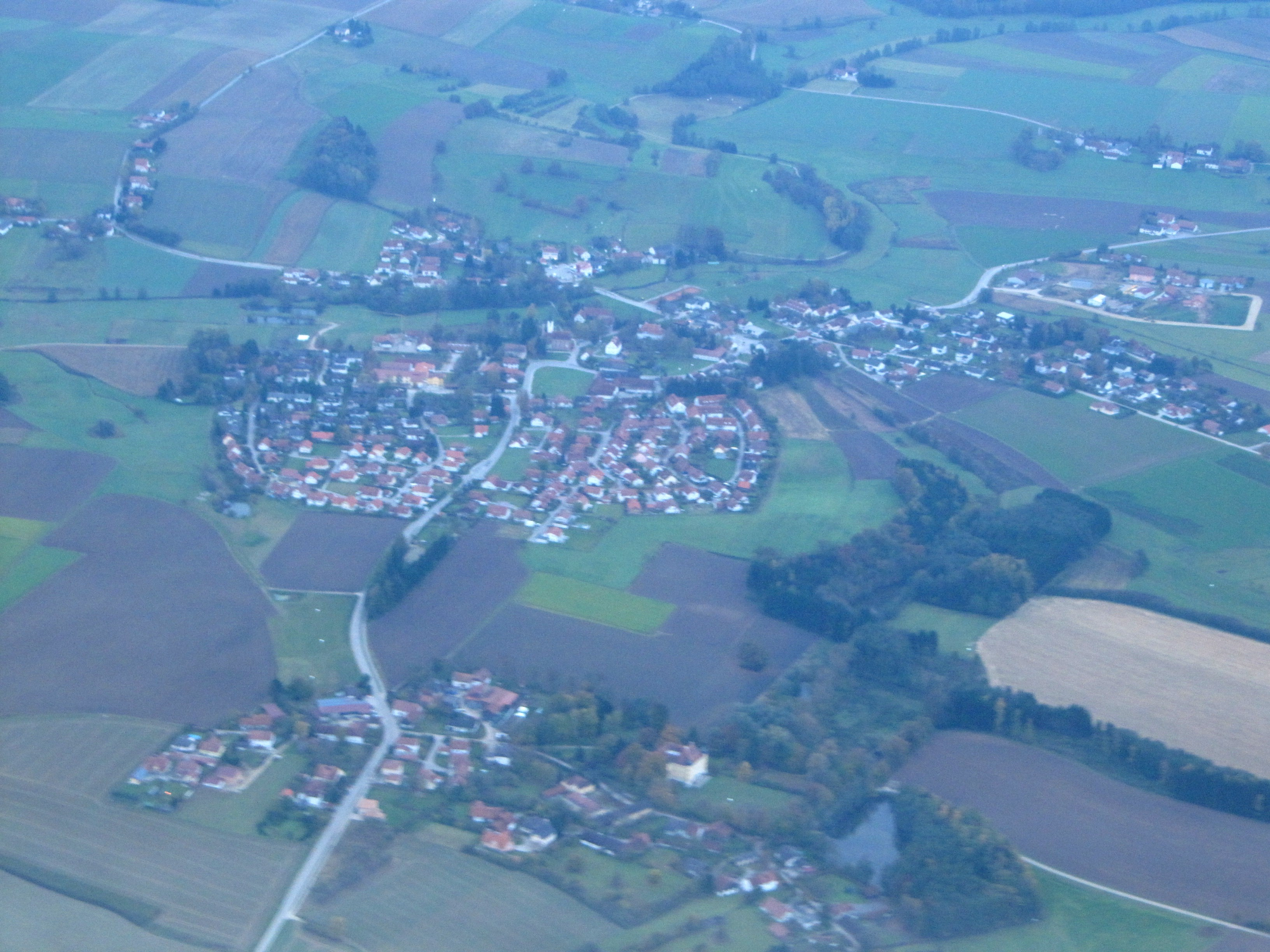 Vilsheim, Kapfing